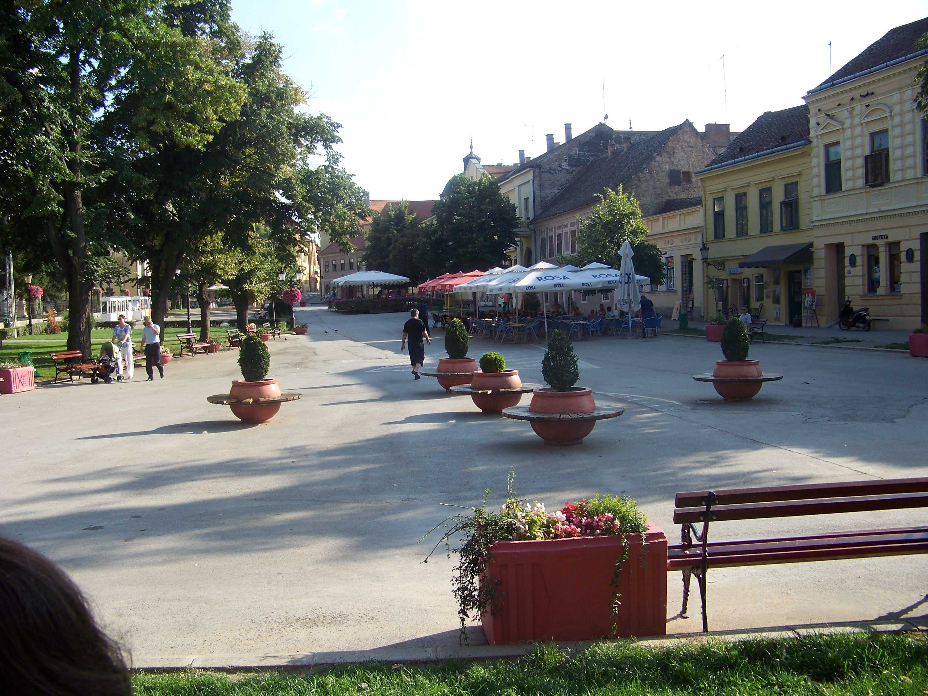 Sremski Karlovci, town square